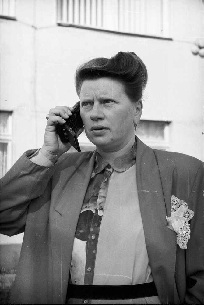 Tatiana Antonovna Yuzvyuk — director of the «New World» factory in Pereslavl.